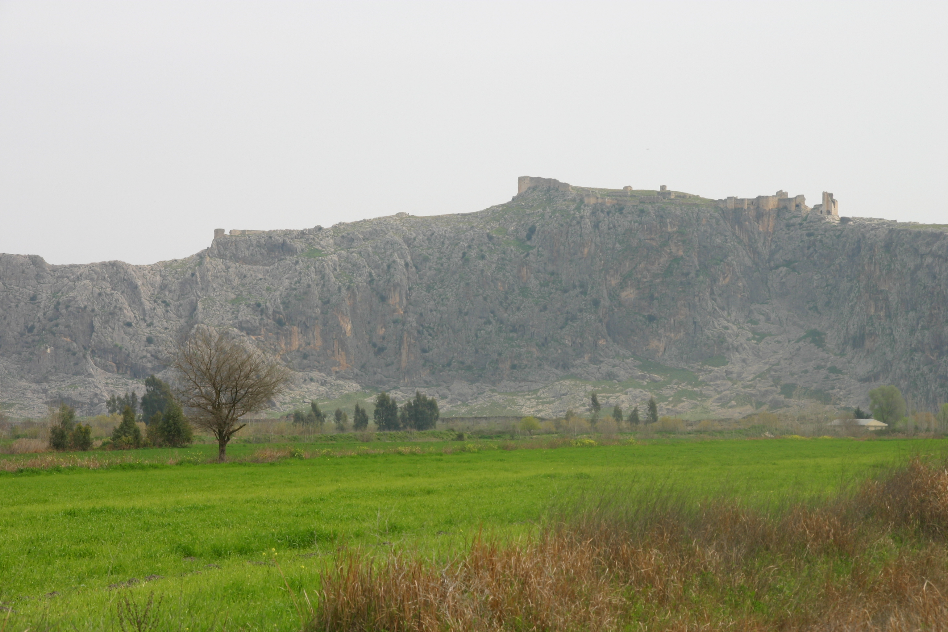 Acropolis of Anazarbos